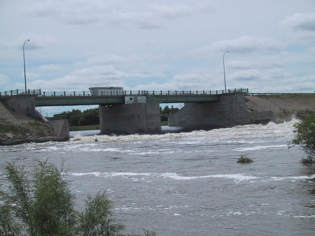 Red River Floodway control structure, just south of St. Norbert. Gates across the river raise to divert water into the floodway. This picture was taken by me, W. T. Shymanski, and is hereby released into the public domain. ( I thought I'd done all that when I first uploaded it...shouldn't the responses to the automatic prompts be recorded? ) --Wtshymanski 18:00, 2 February 2006 (UTC)